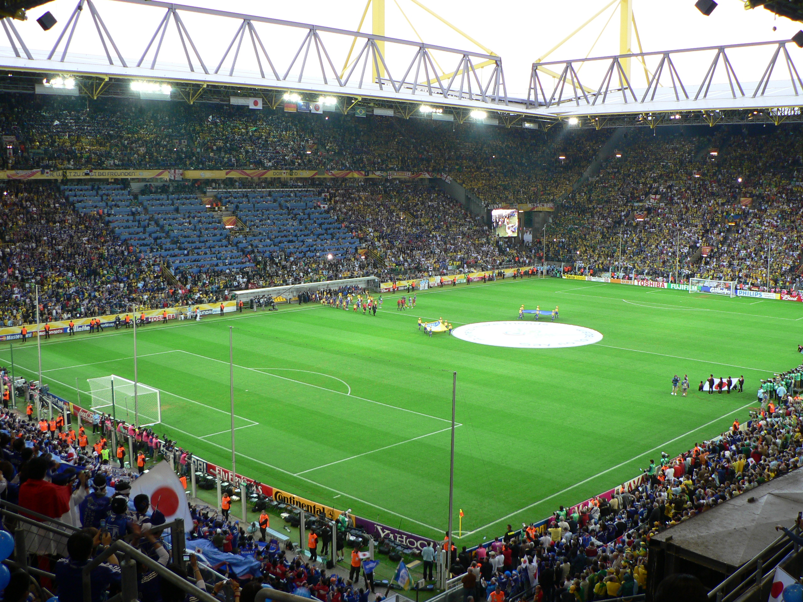 2006Worldcup Brazil vs Japan in Dortmund.